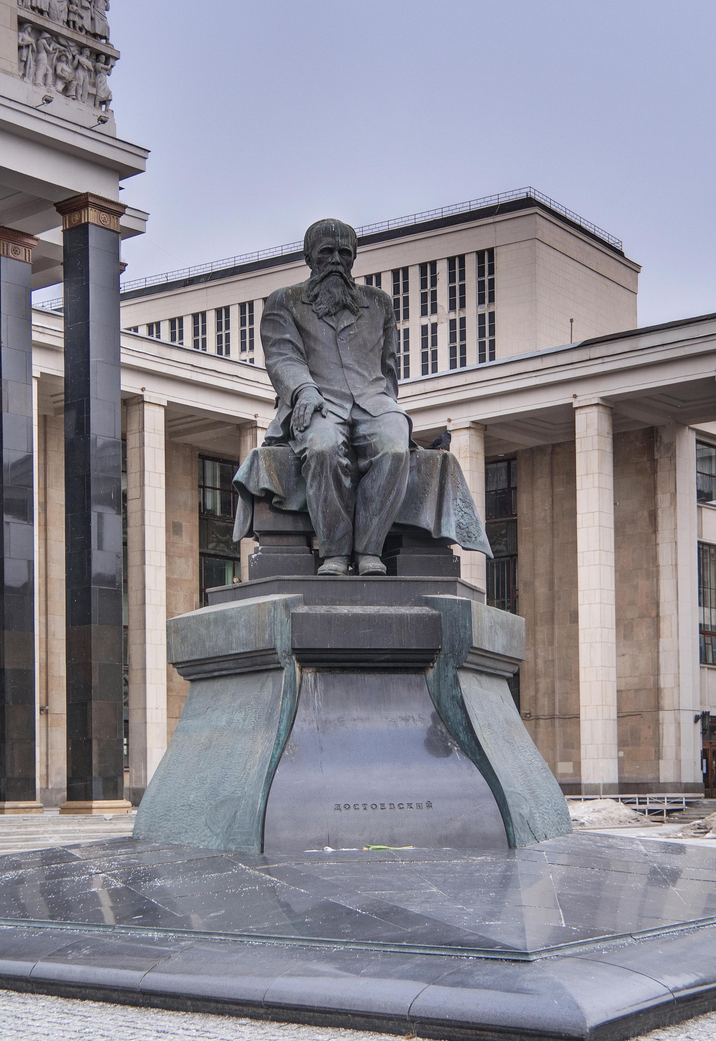 Statue of Fyodor Dostoyevsky in Moscow